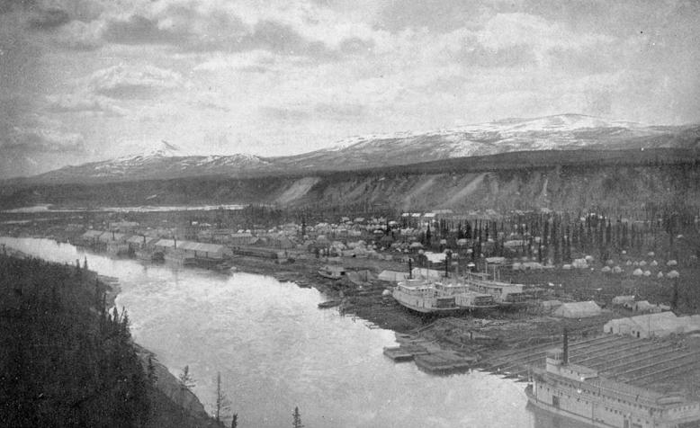 The original caption read: White Horse, Yukon Territory; Case and Draper